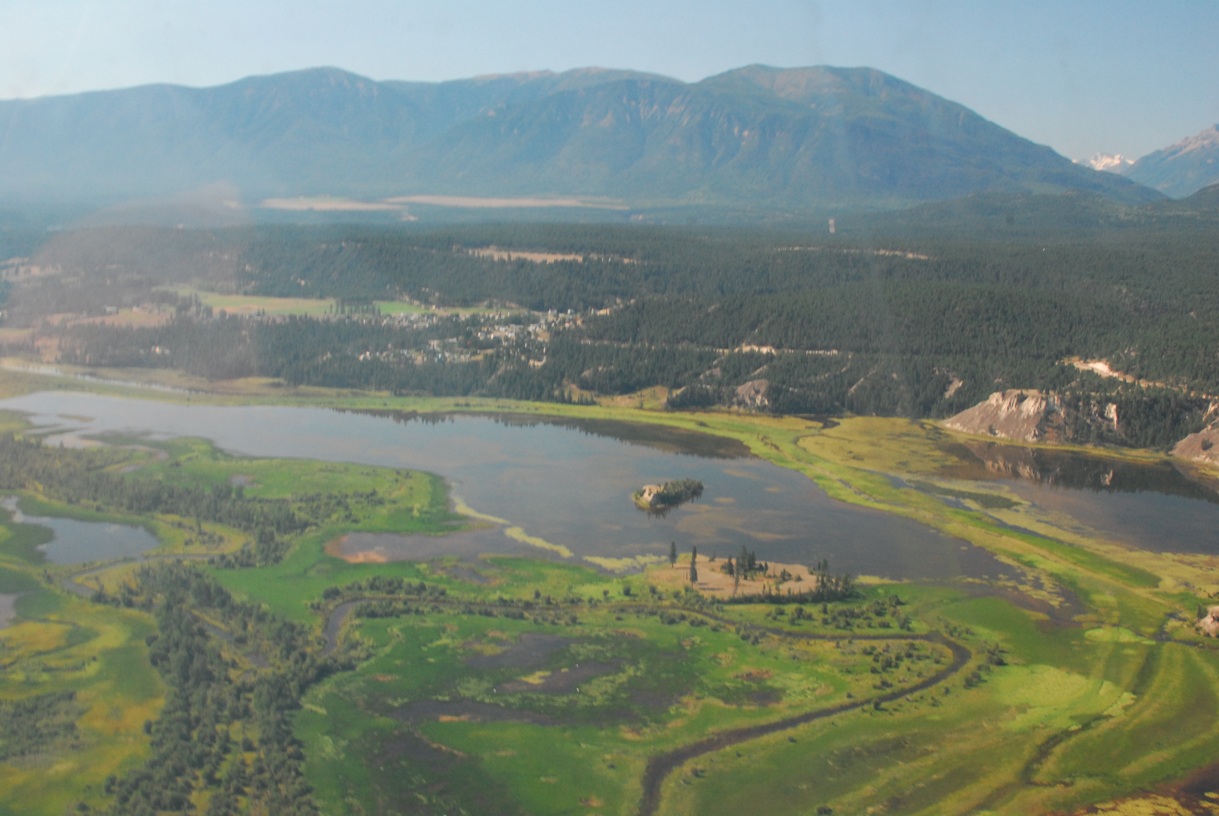 Columbia Wetlands in Invermere Taken by myself after departing Inveremere Airport.